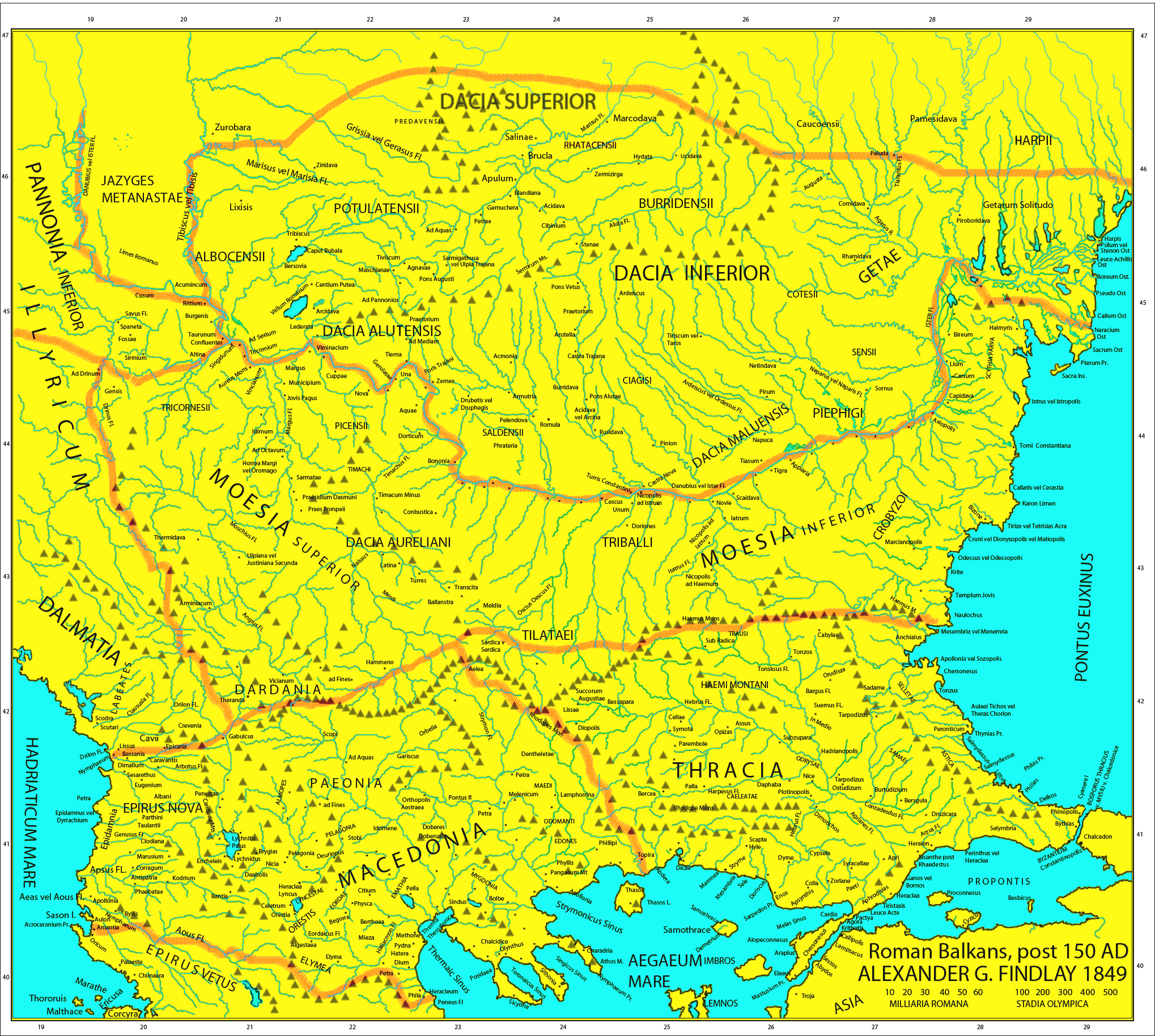 Map of the Roman provinces of Macedonia, Thracia, Illyricum, part of Pannonia Inferior, Moesia & Dacia. It is a reproduction of the 1849 Finley Map with Roman provincial borders (of about 150 AD) added to provide more information. This means that locations of many cities, tribes or other features are according to 1849 scholarship and not up to date. For example, many cities shown have not been identified yet and Findlay made arbirtrary conclusions. A great omission is that Lake Prespas are missing. This map includes even 2nd century AD (i.e. Adrianopolis) cities and even later ones. This map is a Post-Roman conquest map, the atlas was called "classical" and included many types of maps. Due to the fact that the 1849 map is damaged, not all the names of some towns and rivers are included. If anyone can discern them add them to the talk page and i will add them to the file.